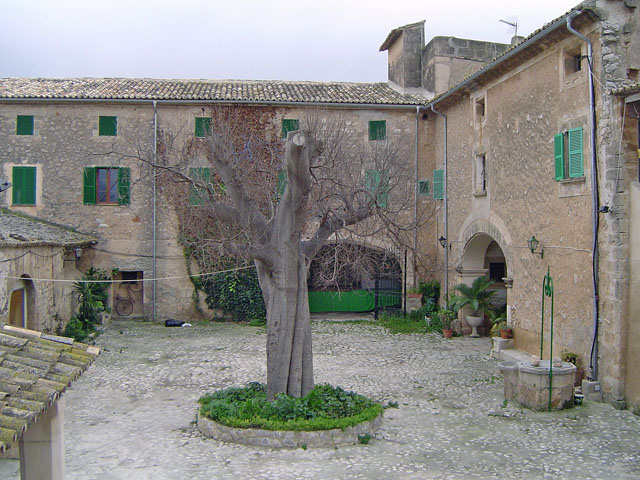 Patio of the estate Son Bibiloni, at Palma, Majorca